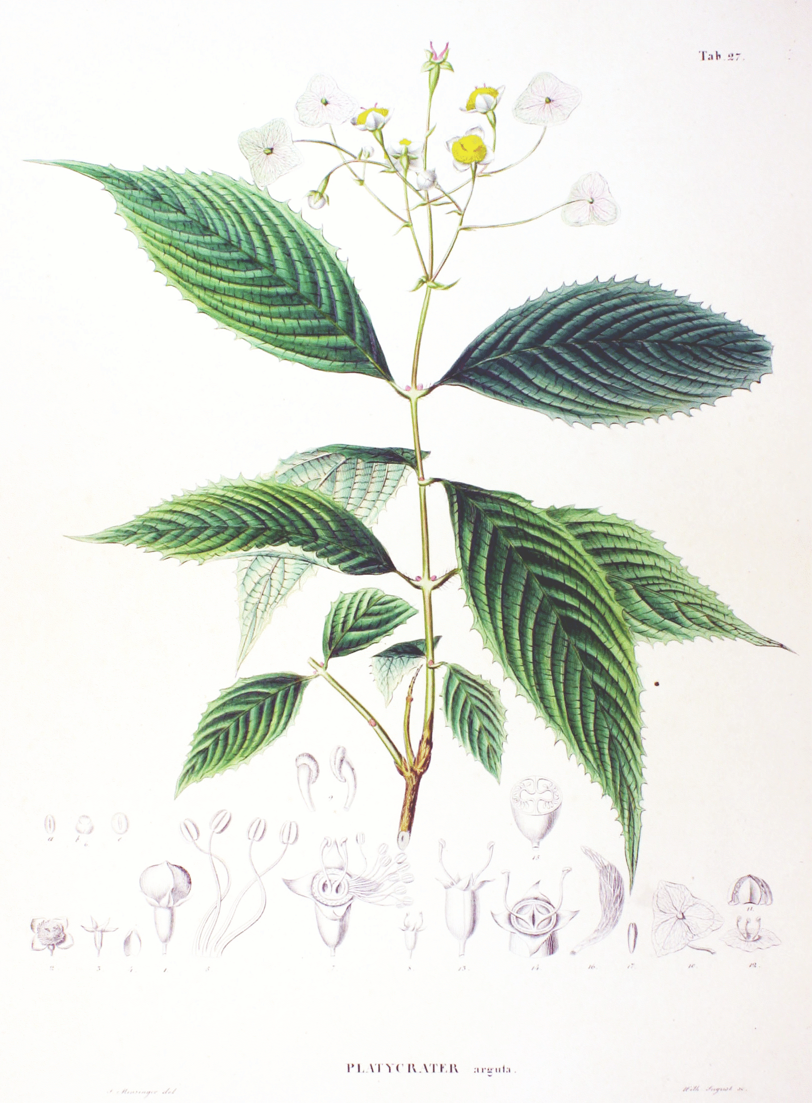 Platycrater arguta Plate from book